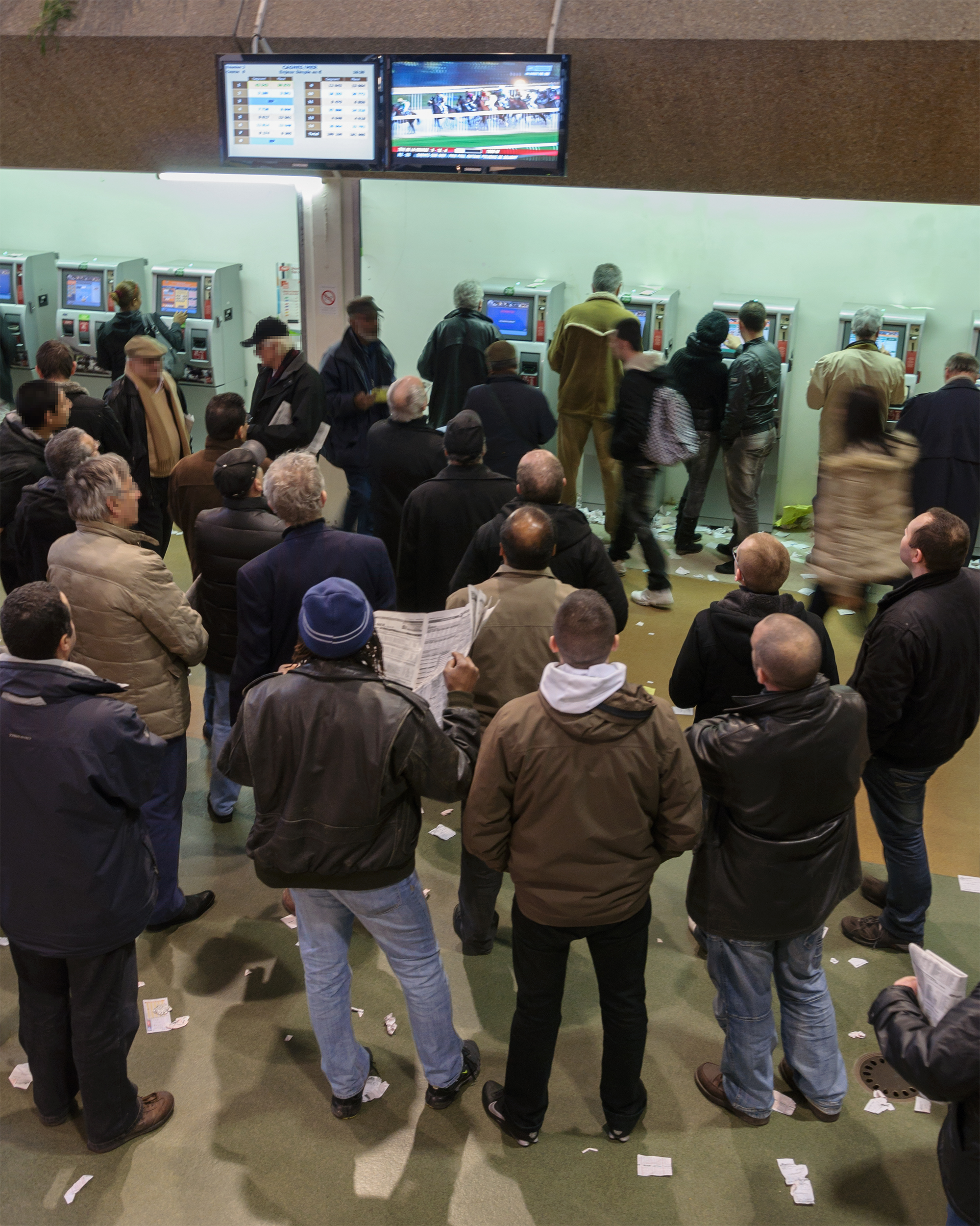 Horse race betting at Hippodrome Paris-Vincennes: waiting the results of a horse race.